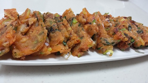 kimchi-buchimgae (kimchi pancakes)